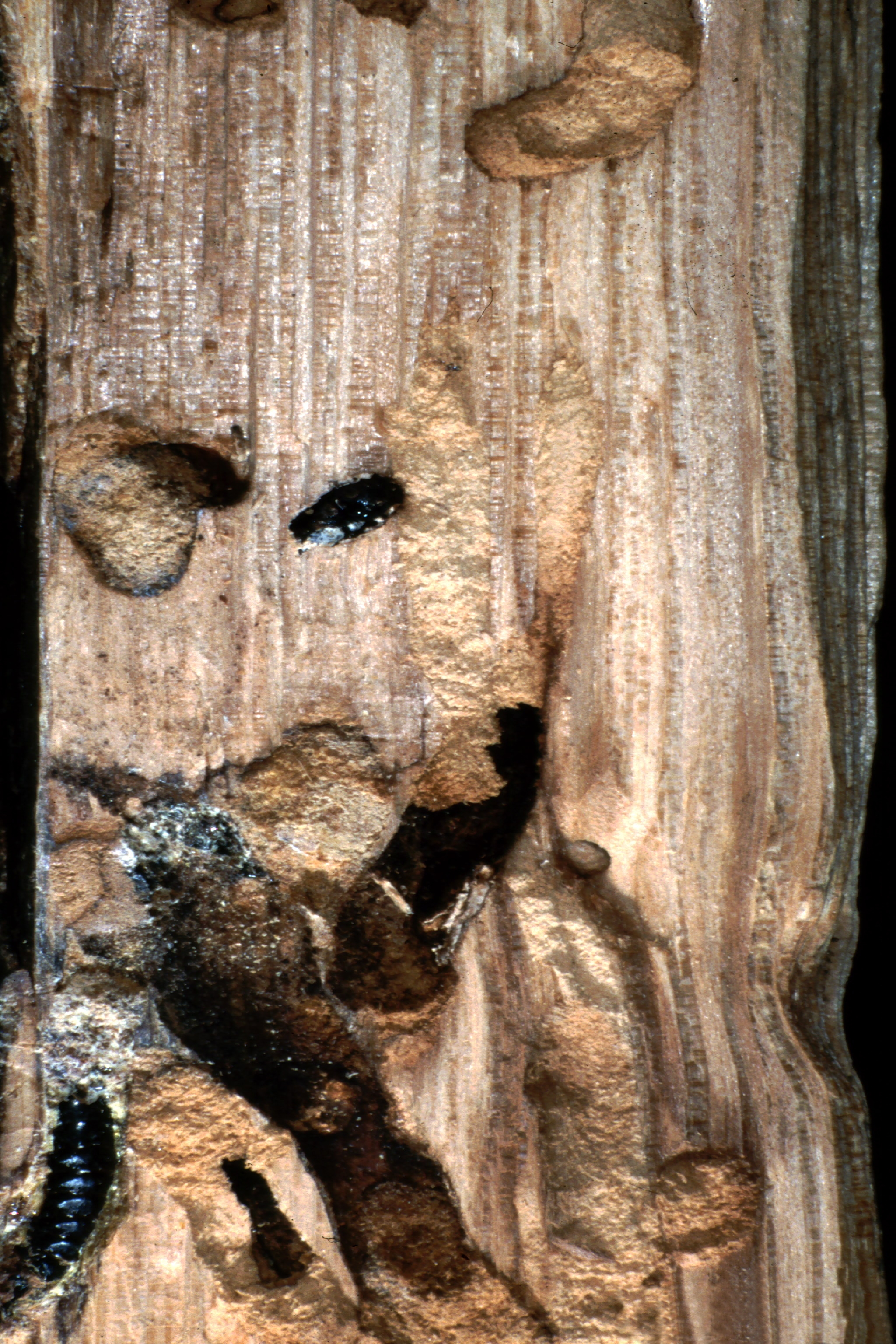 Wood wasp galleries and pupal chambers Xeris spectrum, in Poland